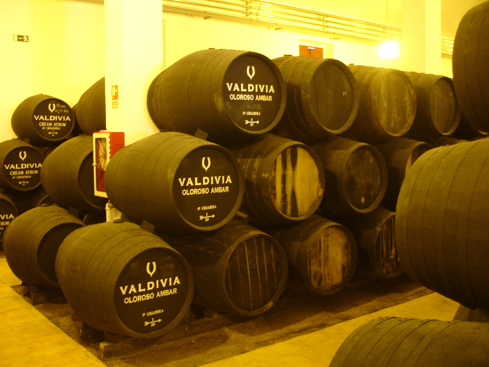 Valdivia in Jerez, Andalusia (Spain)